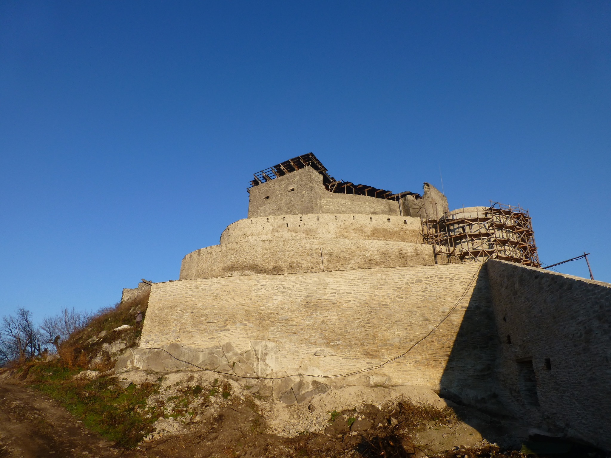 Deva Fortress from the south side, restoration work partially completed (December 2013)